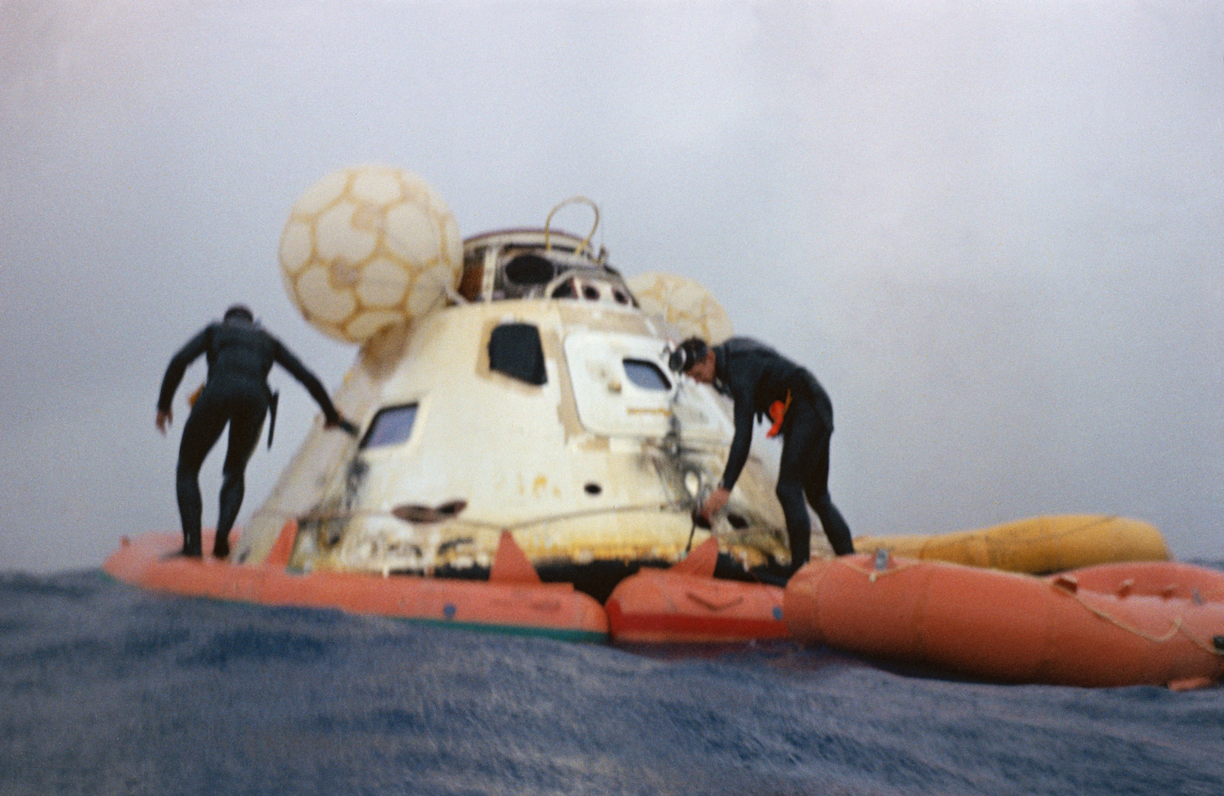 Recovery activities of the Apollo 7C/M and crew, in the water and onboard the prime recovery ship aircraft carrier USS Essex CVS-9. 1. SHIPS - USS ESSEX Available in 120 and 70 CN and B&W.; NASA Identifier: S68-49539